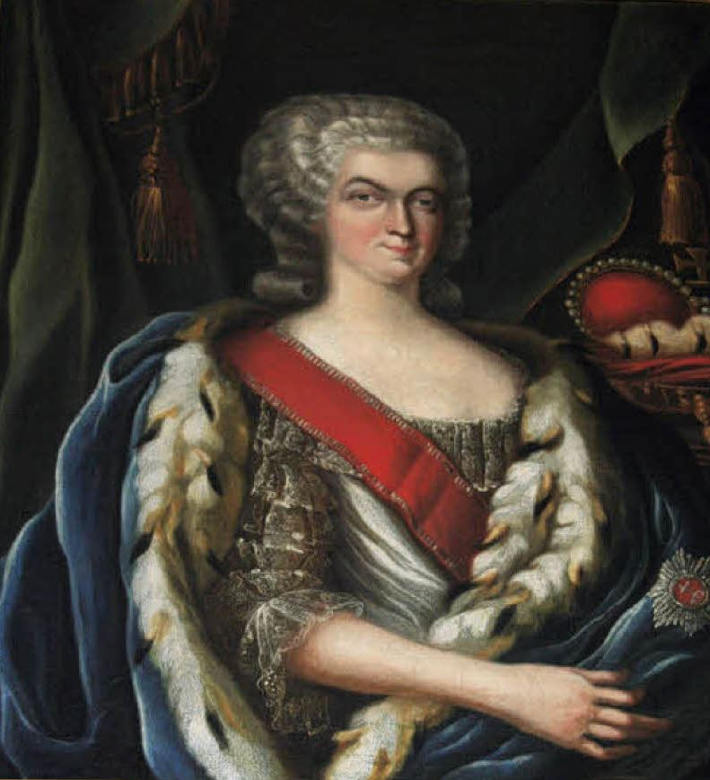 Amalie of Hesse-Darmstadt (1755-1801), wife of Charles Louis, Hereditary Prince of Baden